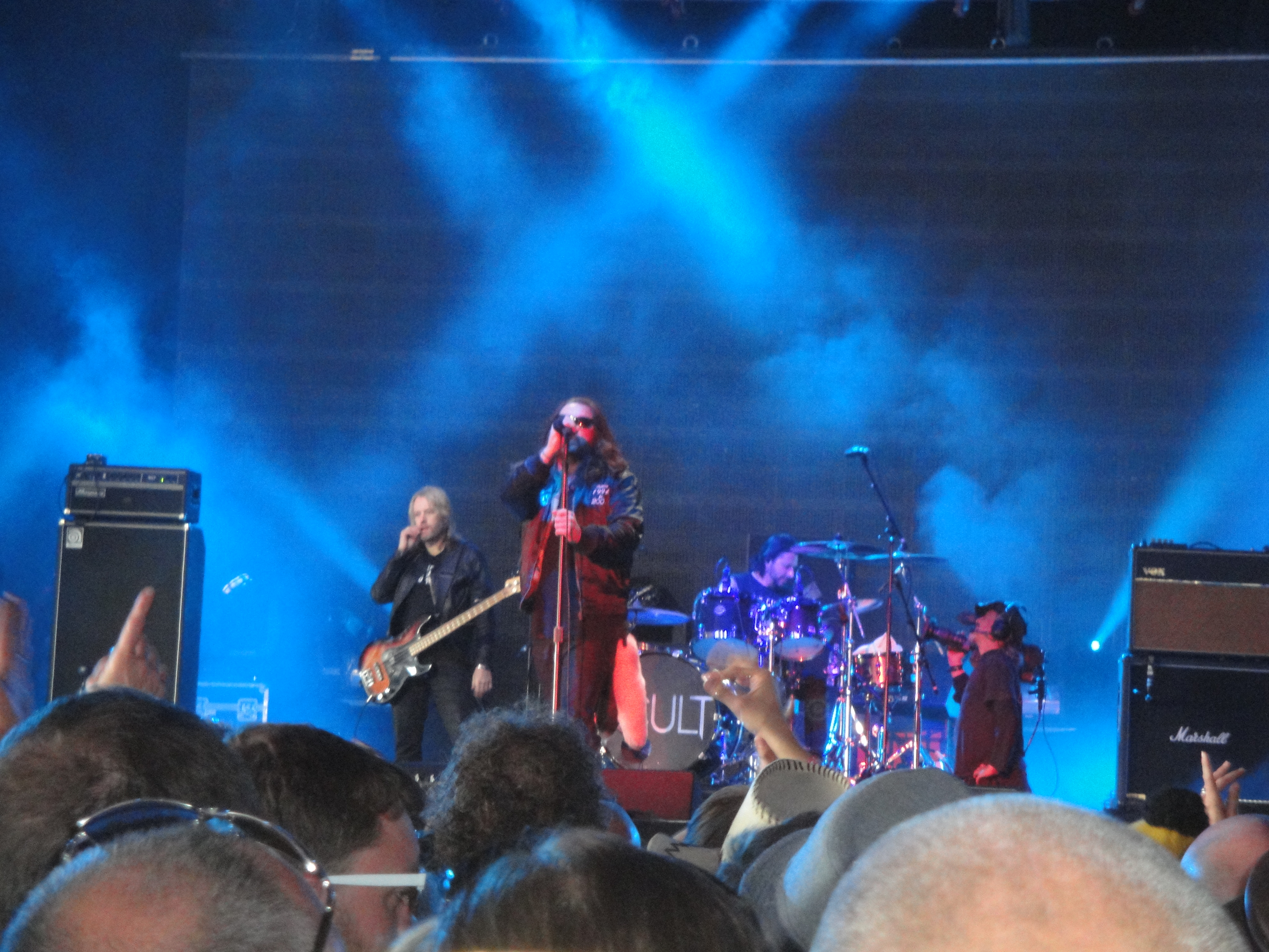 The Cult, seen performing in the Big Top Arena of the Isle of Wight Festival 2011, held in Seaclose Park, Newport, Isle of Wight.